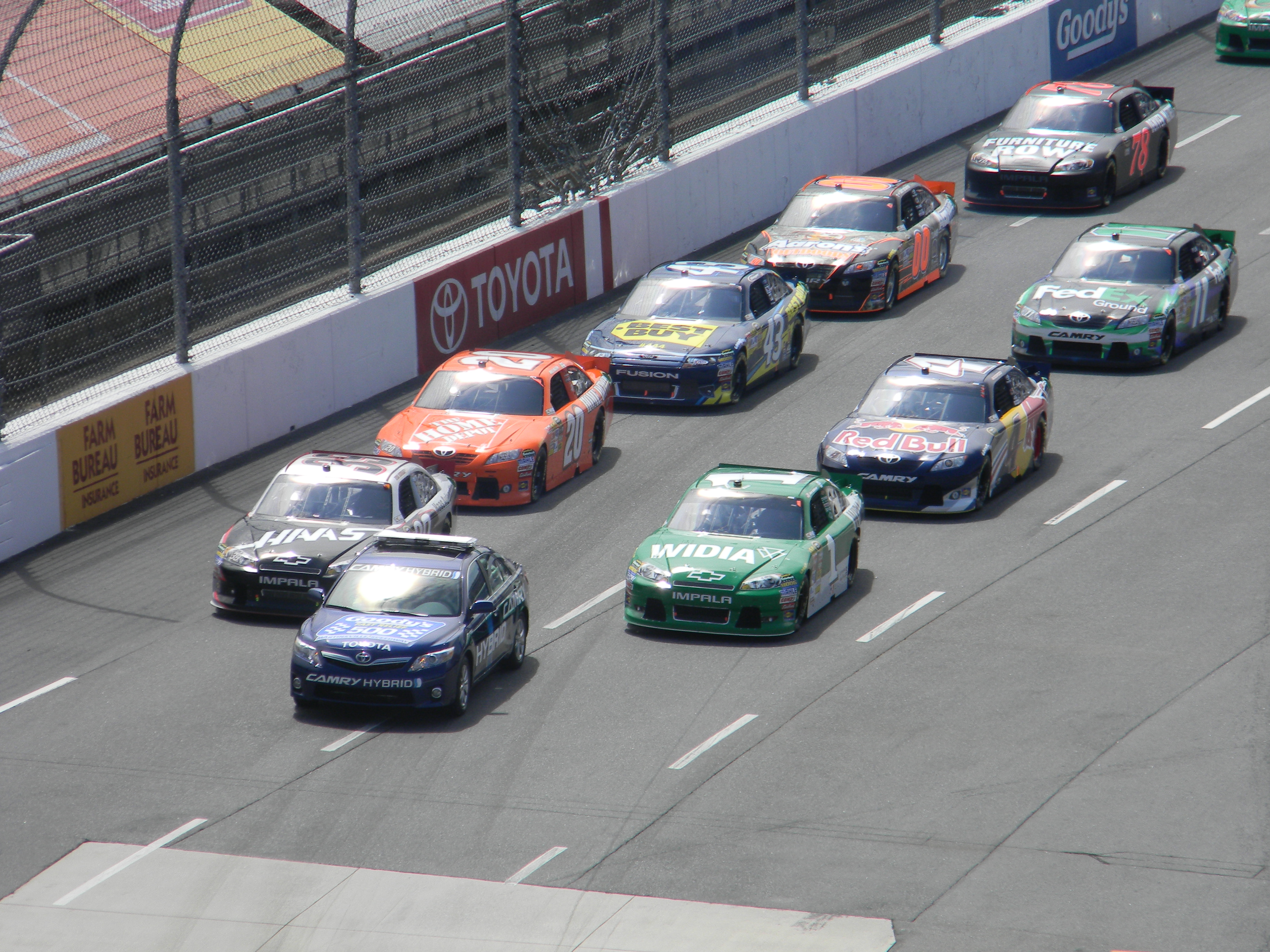 The pace-car leads the field shortly before the green flag for the 2011 Goody's Fast Relief 500 at Martinsville Speedway.